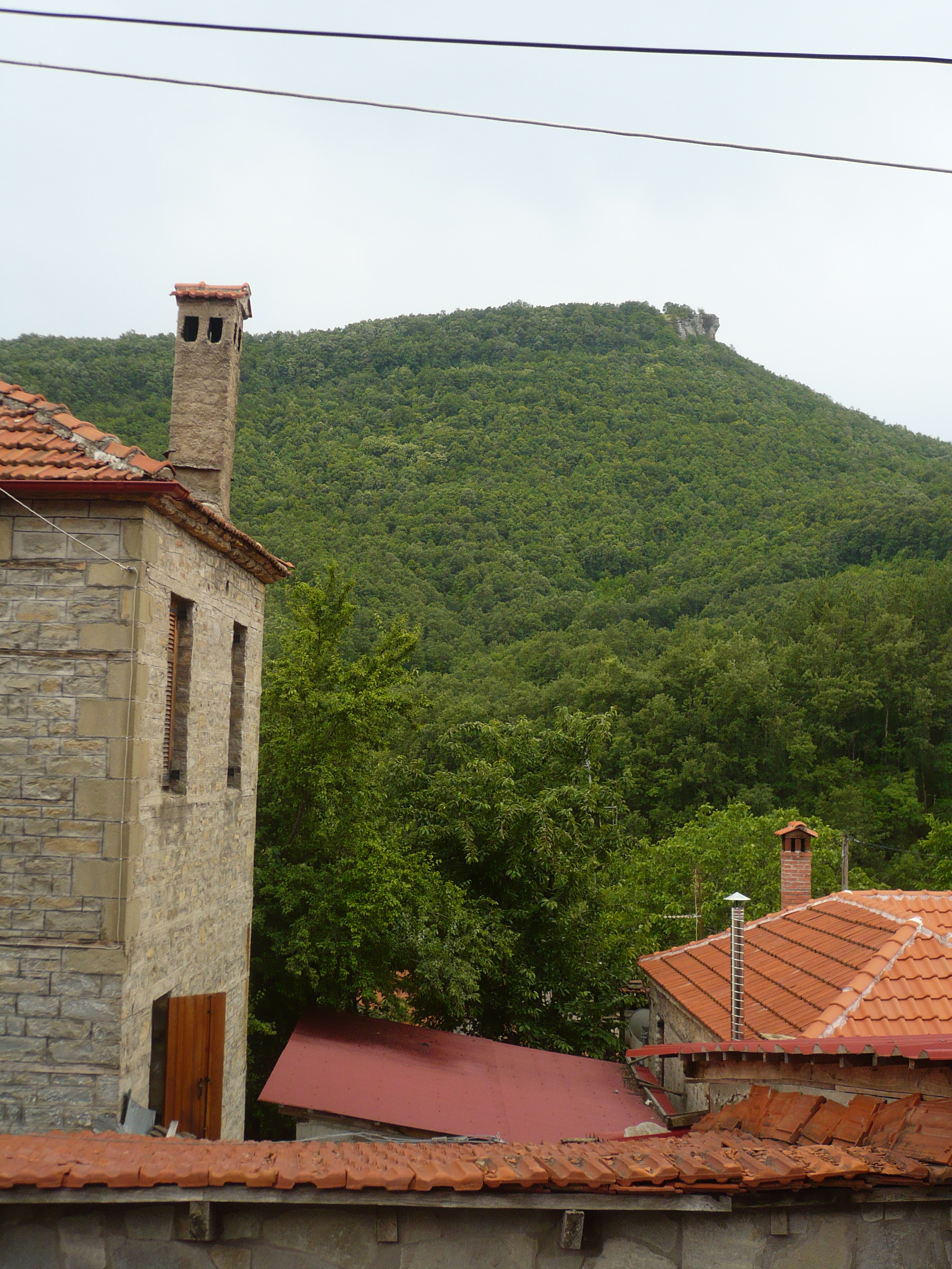 The peak of Mount Klepsios, as seen from Polykastano, a village.